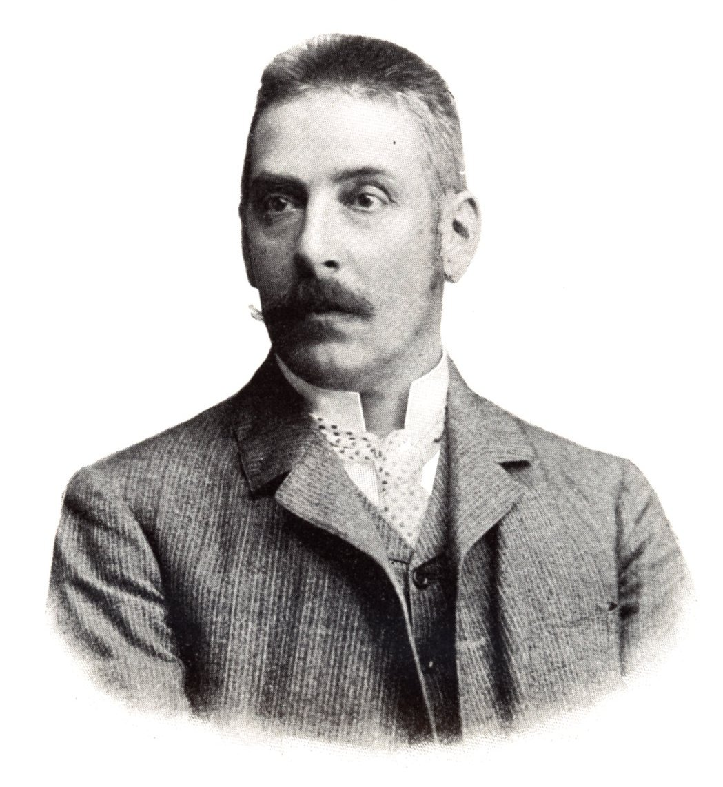 The politican István Rakovszky